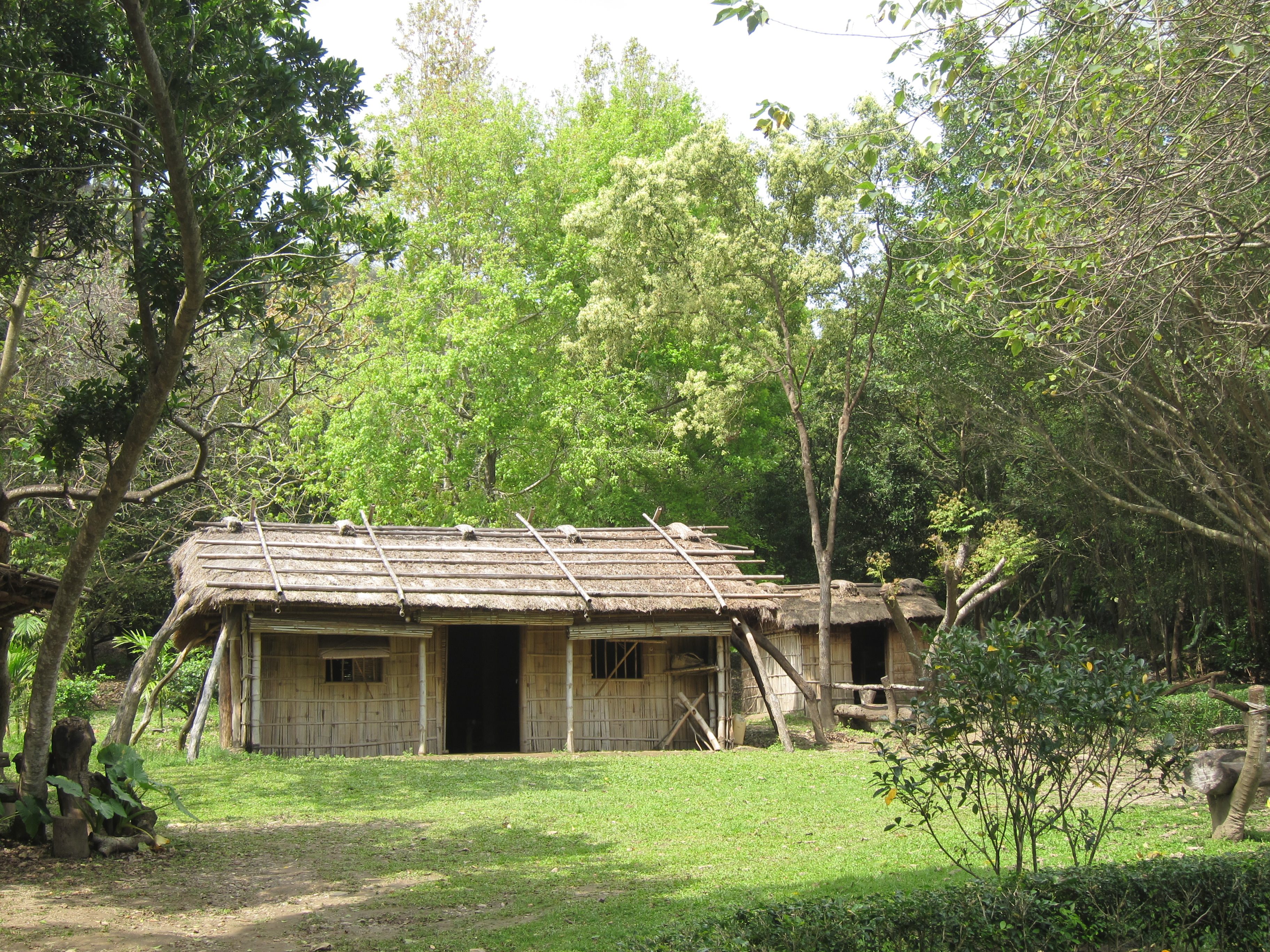 A traditional house of the Puyuma People in Taitung, Taiwan.中文（台灣）: 卑南族的傳統家屋，攝於台灣台東卑南文化公園。